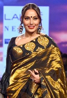 Actress Bipasha Basu at LFW Summer 2020